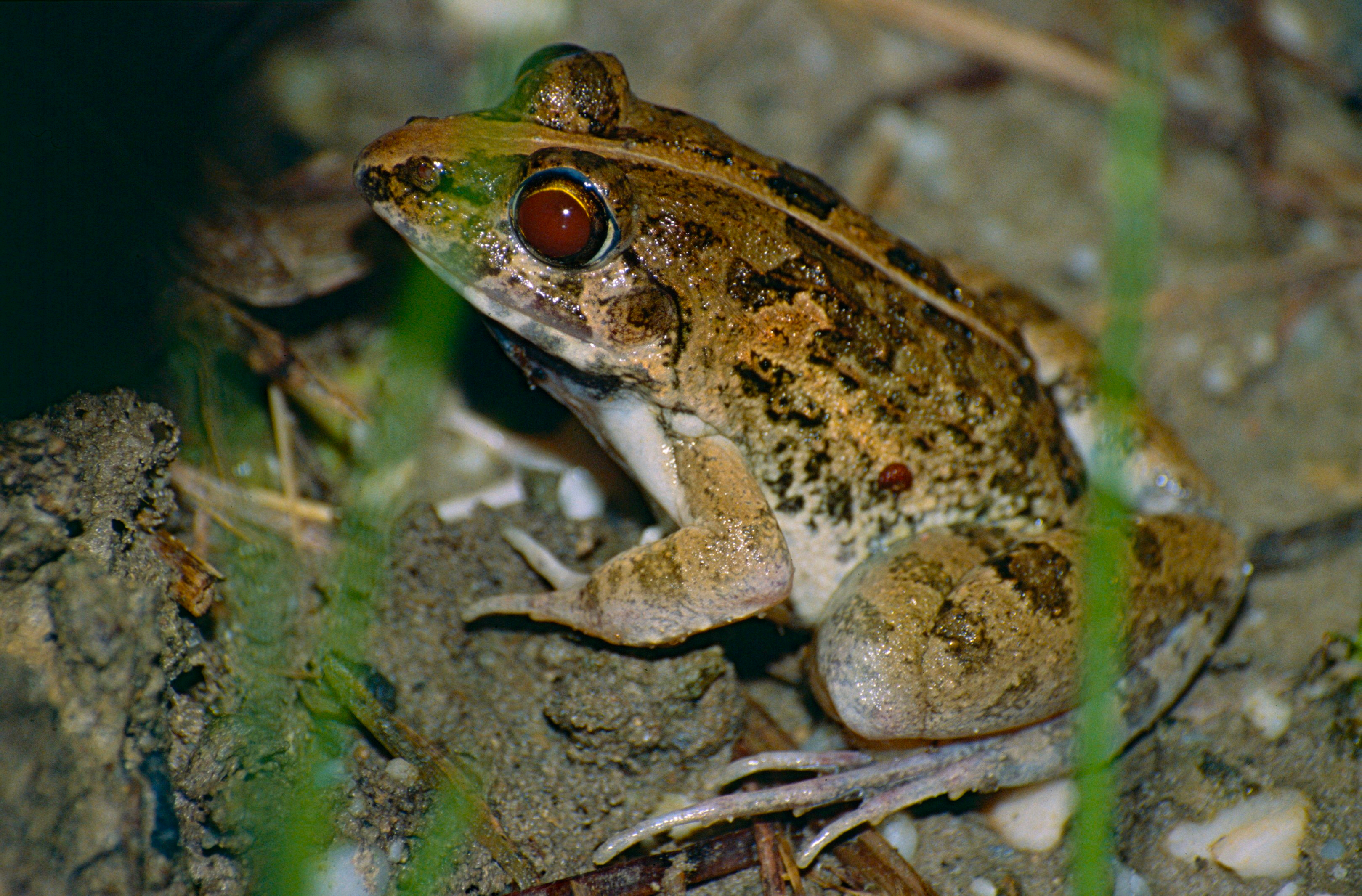 Sepilok NP, Sabah, MALAYSIA Scanned slide from 2001